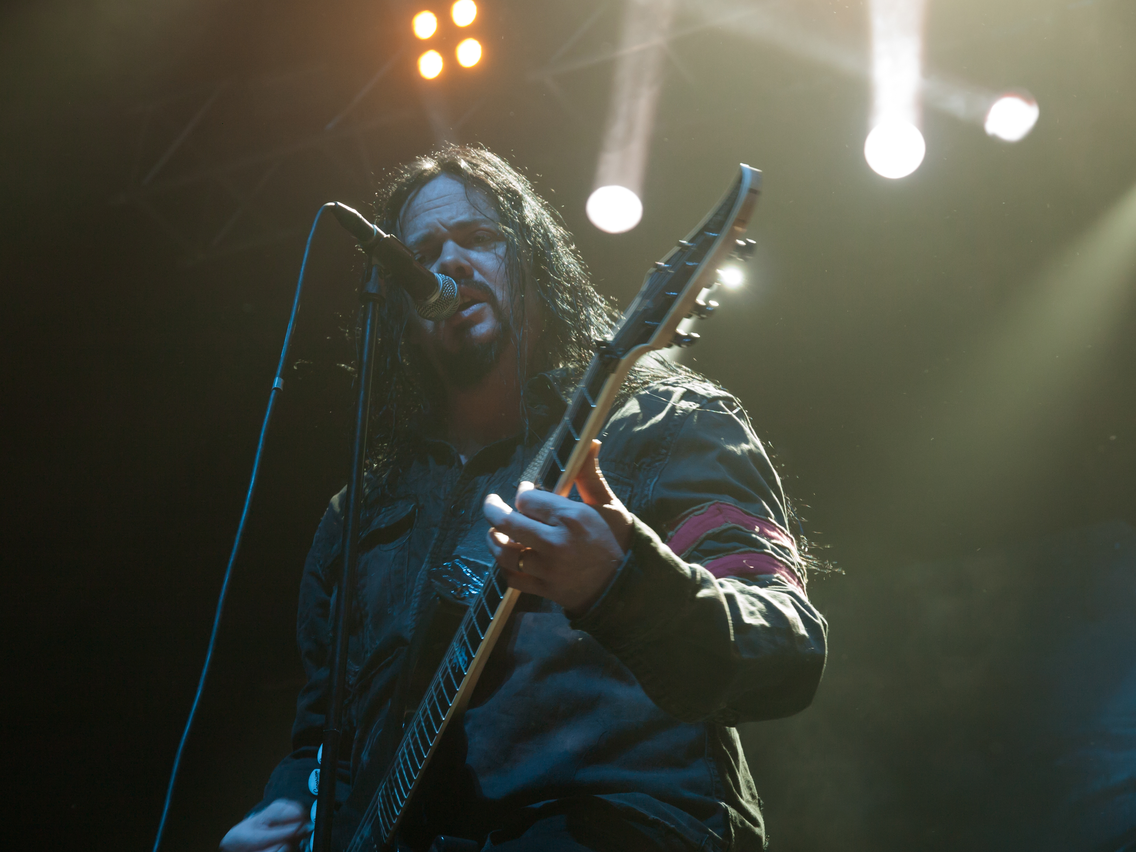 Evergrey live at Finnish Metal Expo 2012 in Helsinki